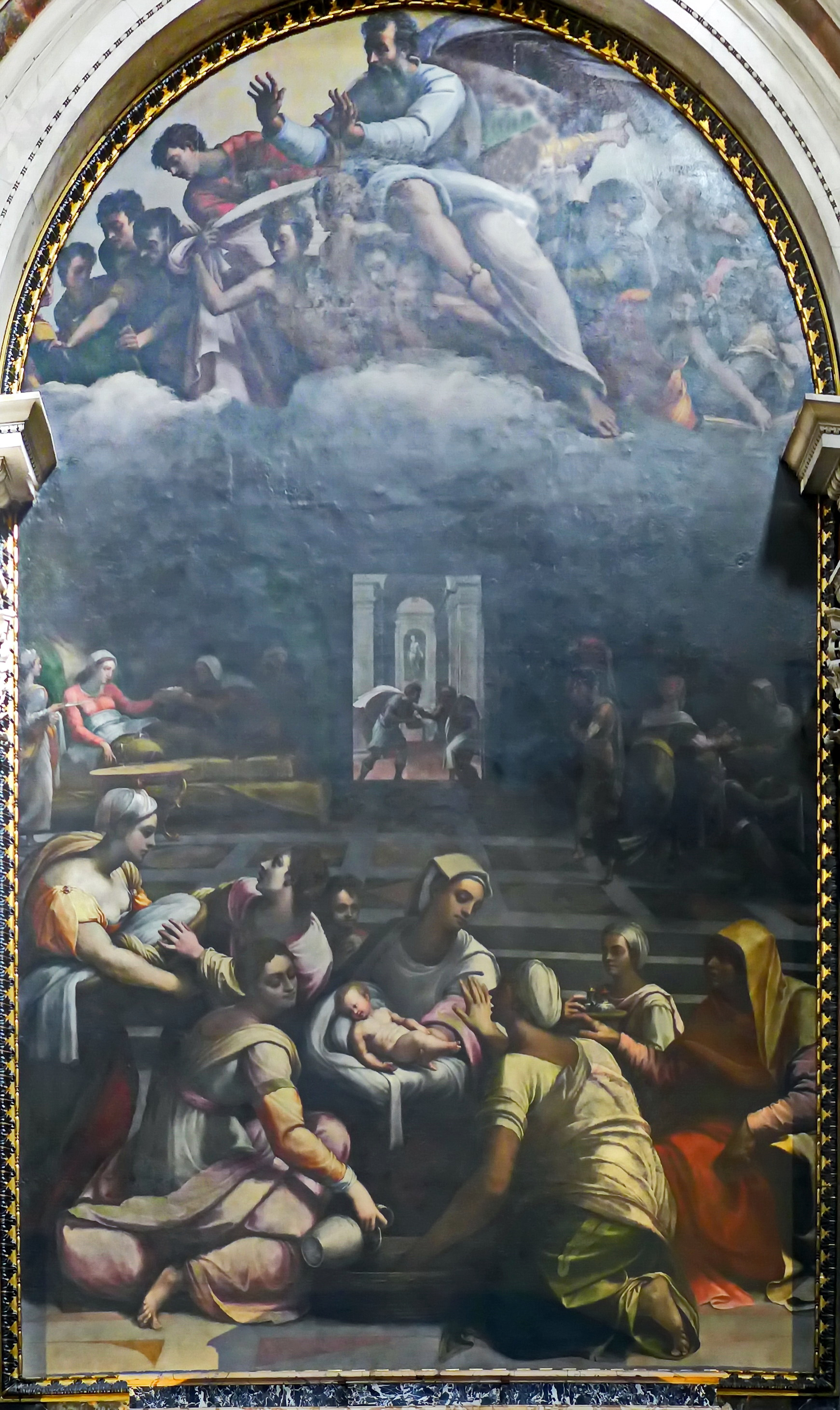 Santa Maria del Popolo Capella Chigi Altartable of Sebastiano del Piombo